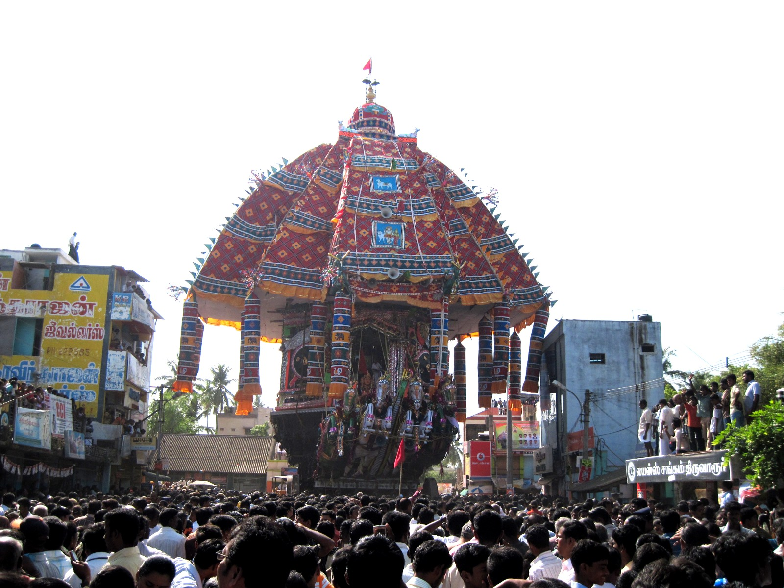 The Tiruvarur Temple Car Festival 2010.